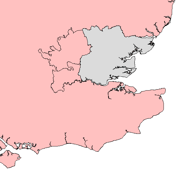 A map of the county of Essex (grey), showing those adjacent parts (Hertfordshire in the northwest, Middlesex in the southwest) which historians of the period have postulated were formerly attached to the Anglo-Saxon kingdom of the same name, from the 6th century until the middle of the eighth century.